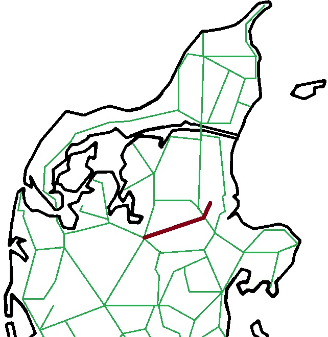 Map of railways in the northern Jutland in Denmark with the private railway Mariager-Fårup-Viborg Jernbane in brown.